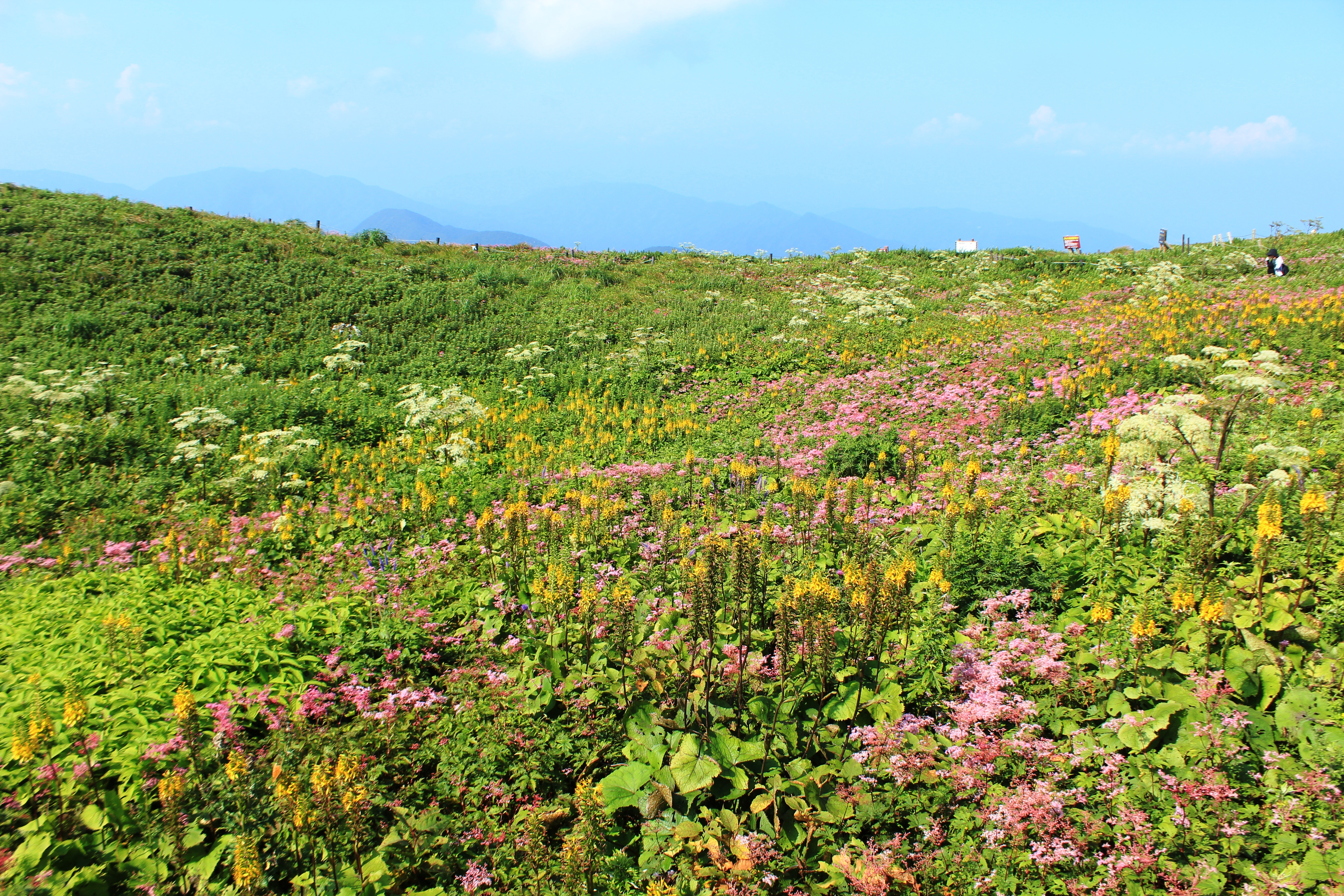 Wild plant garden (Filipendula multijuga, Ligularia stenocephala) onMount Ibuki, Maibara, Shiga prefecture, Japan.